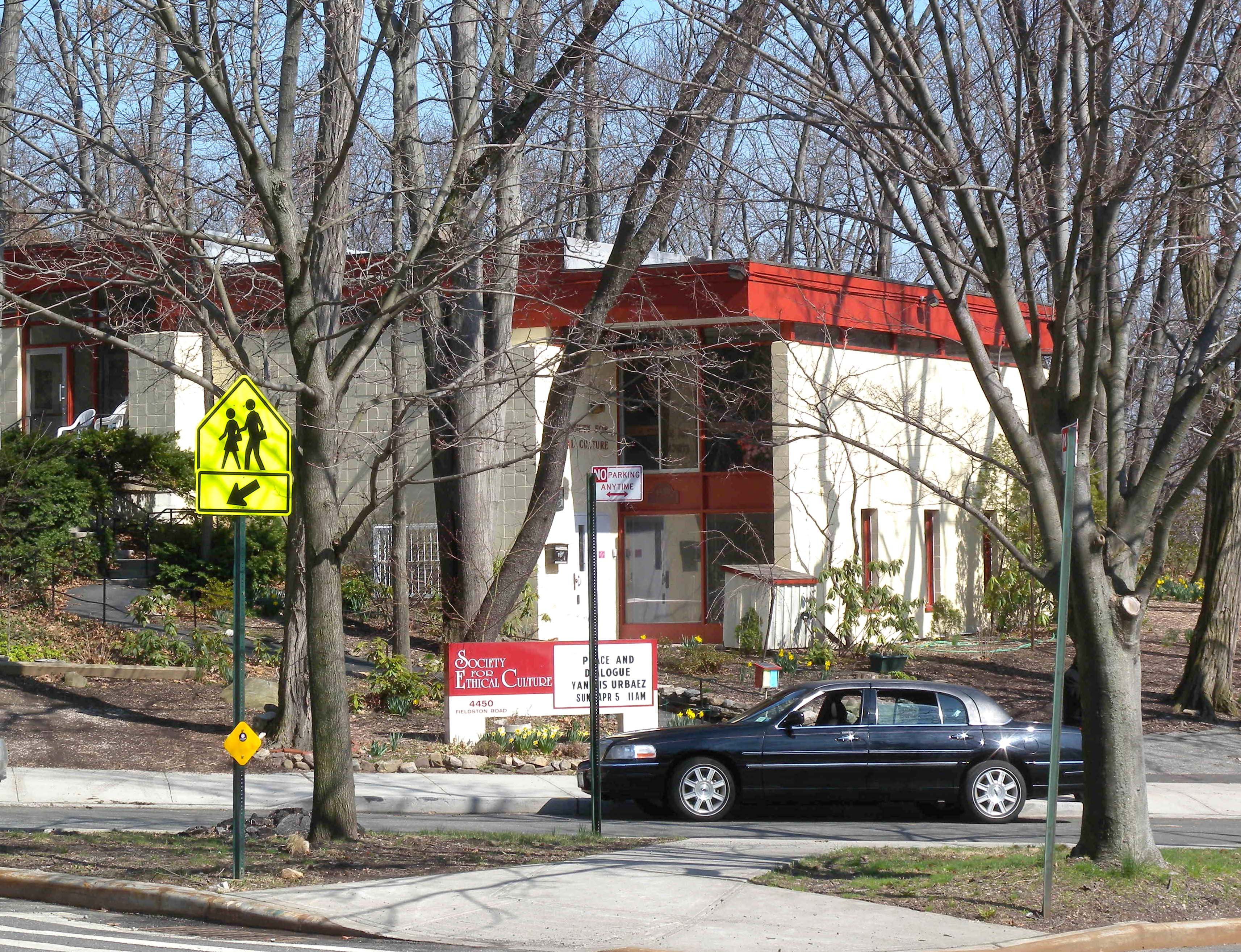 Looking east from Manhattan College Parkway at 4450 Fieldston Road in Riverdale, Society for Ethical Culture, on a sunny midday.